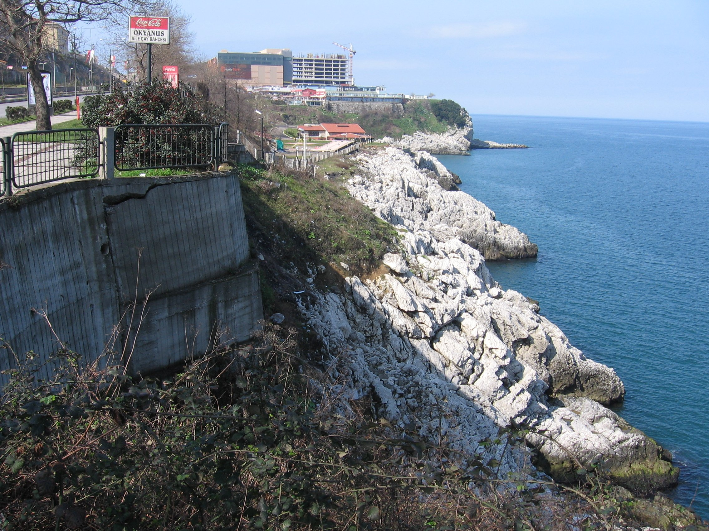 View of the Zonguldak shoreline (Turkey).